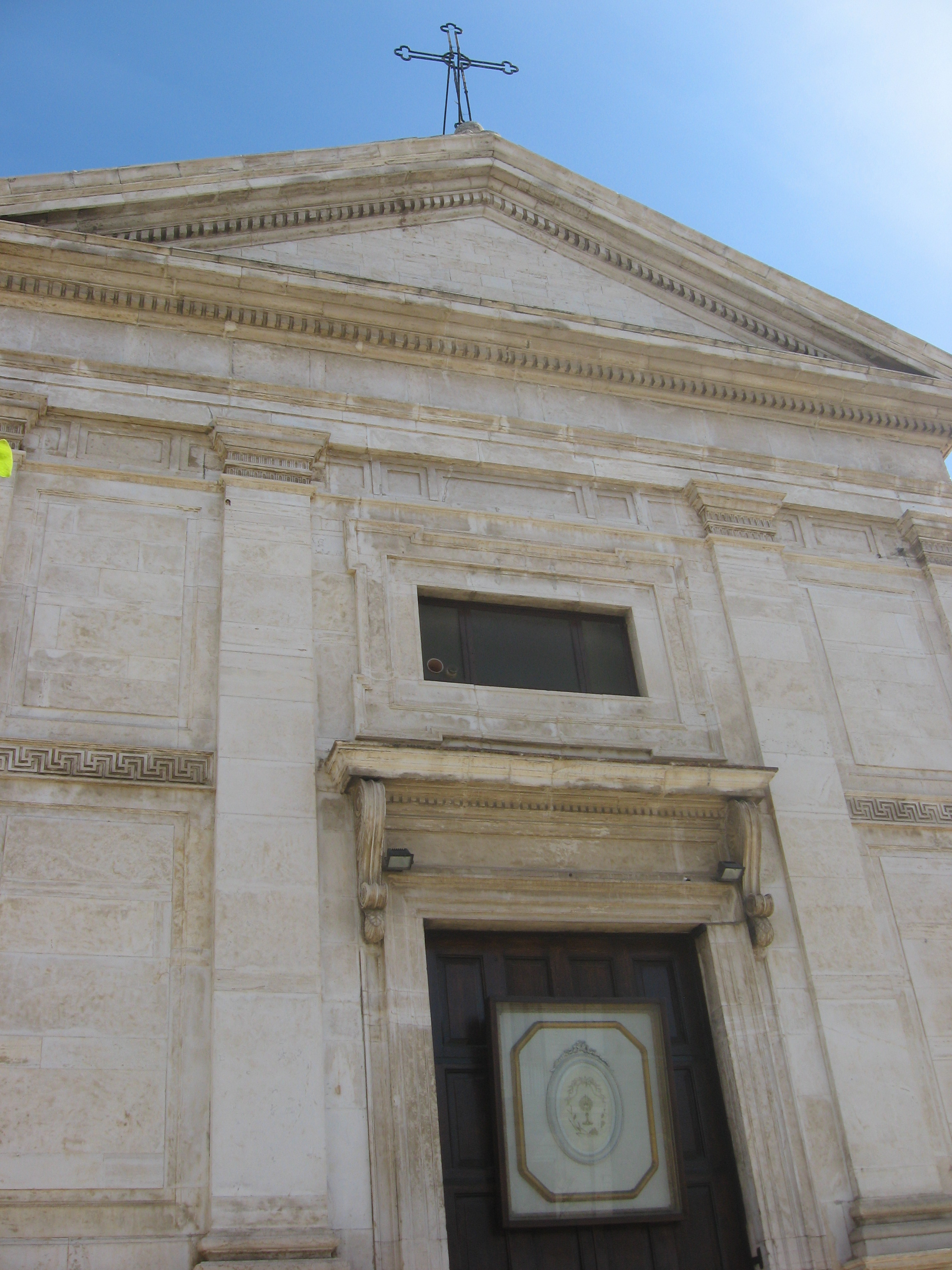 Saint Jack Church in Ruvo di Puglia